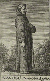 after Unknown artist line engraving, 17th century 6 3/4 in. x 4 3/4 in. (172 mm x 122 mm) paper size Given by the daughter of compiler William Fleming MD, Mary Elizabeth Stopford (née Fleming), 1931 Reference Collection NPG D23987